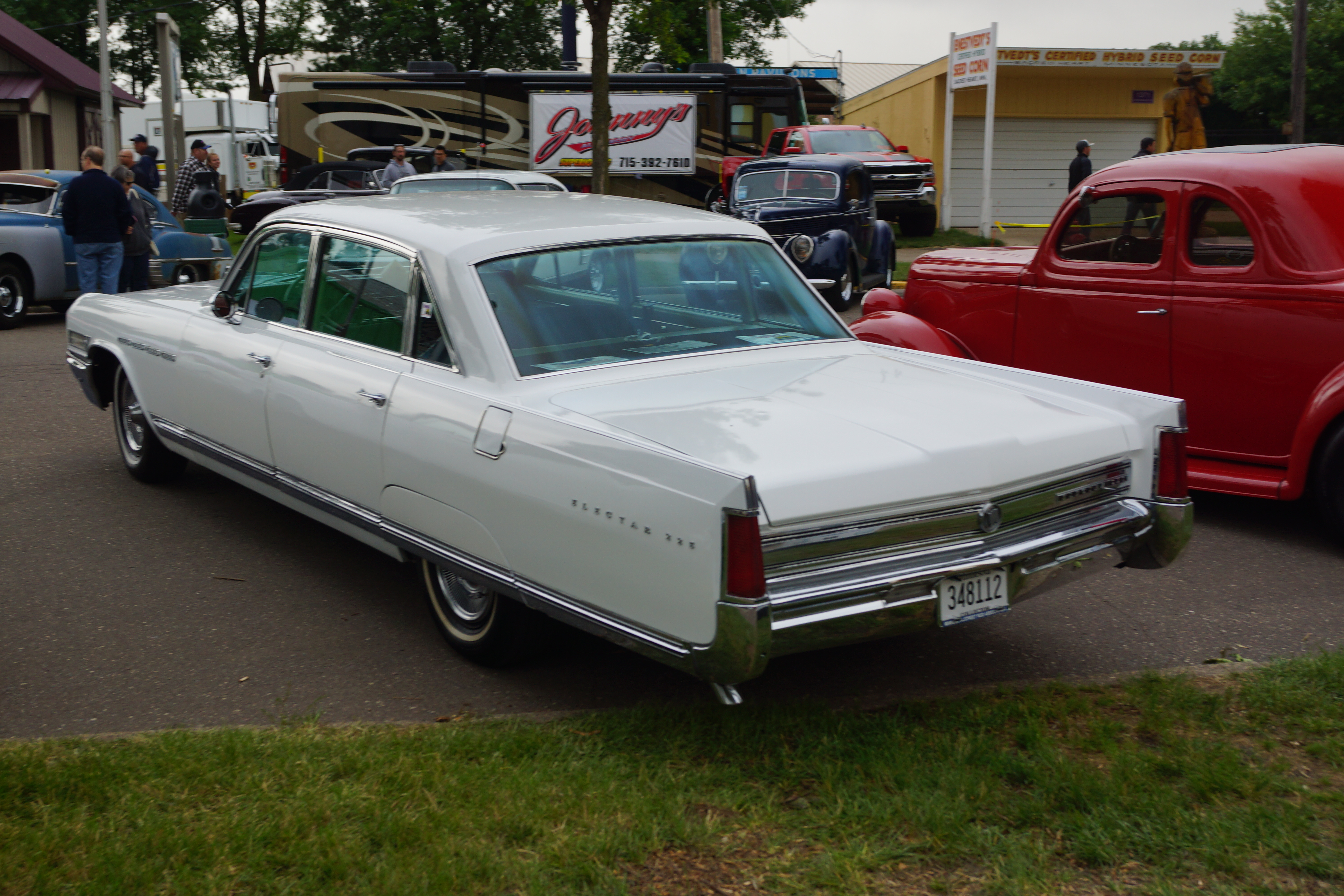 Minnesota Street Rod Association (MSRA) “BACK TO THE 50′s” 44th Annual Car Show June 23-25, 2017 Minnesota State Fairgrounds St. Paul Minnesota Click here for previous "Back to the 50's" pictures.. Click here for more car pictures at my Flickr site. Or here for my Car Crazy Tumblr site. Or on Twitter @DVS1mn.